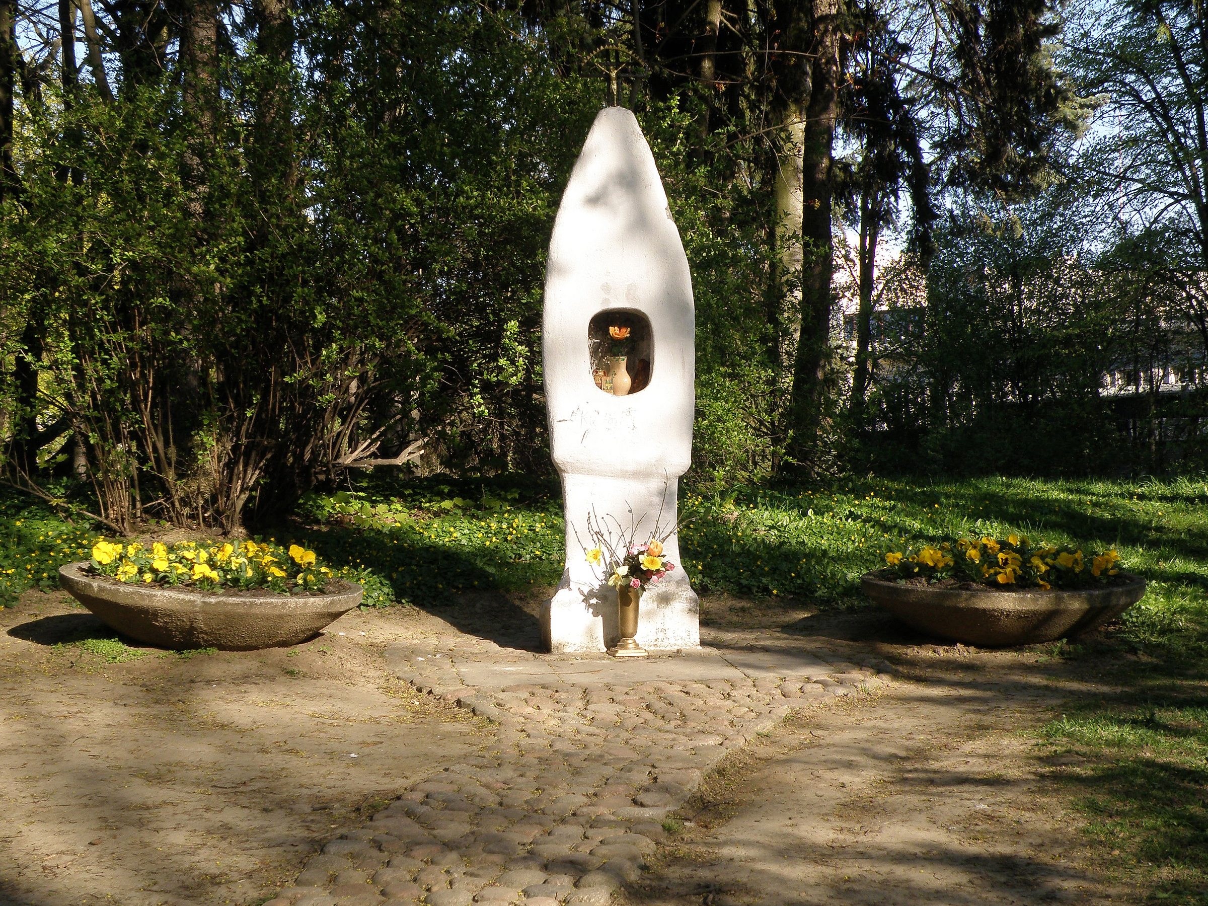 Small chappel, Skaryszewski Park, Warsaw, Poland